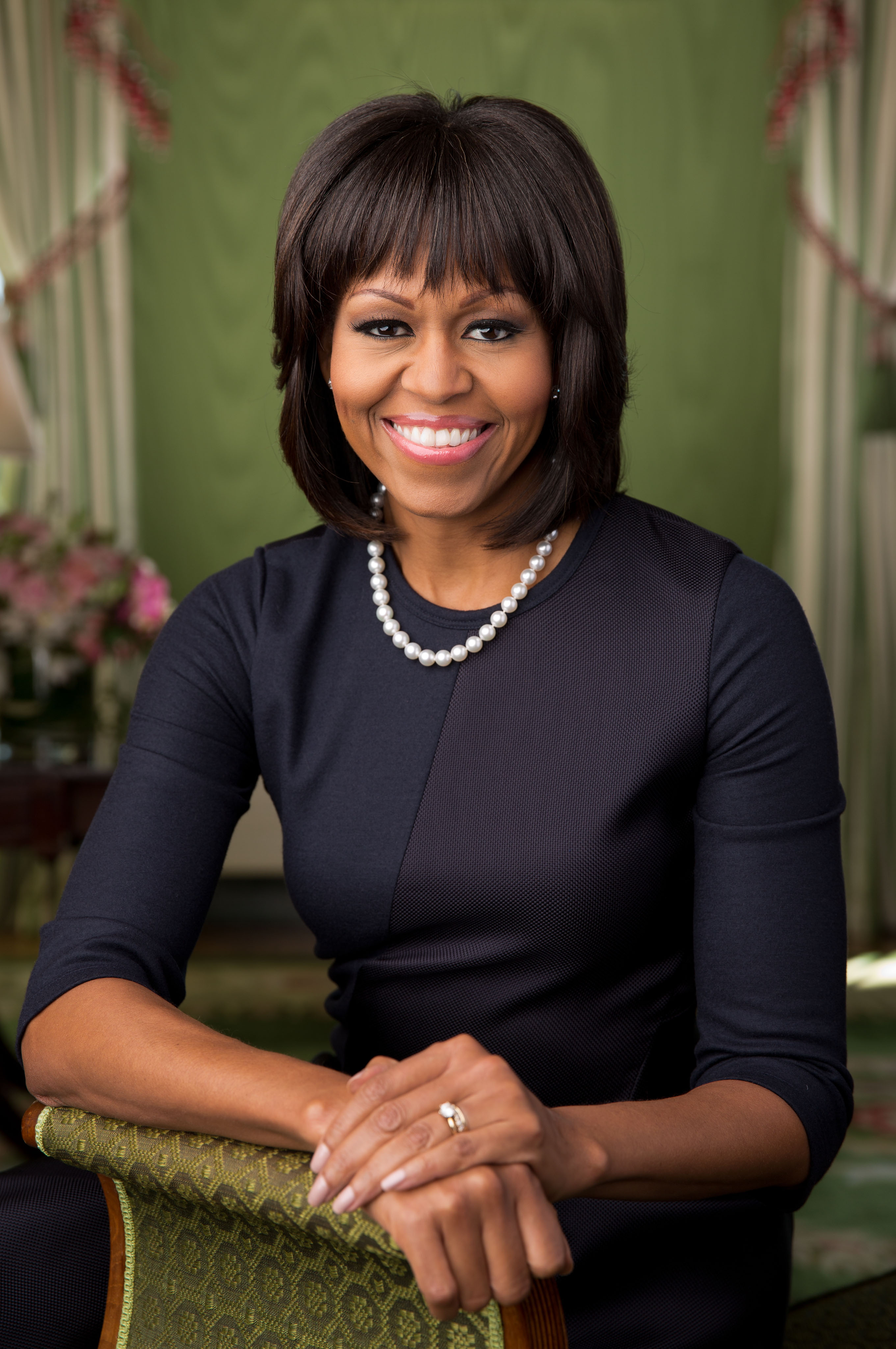 Official portrait of First Lady Michelle Obama in the Green Room of the White House